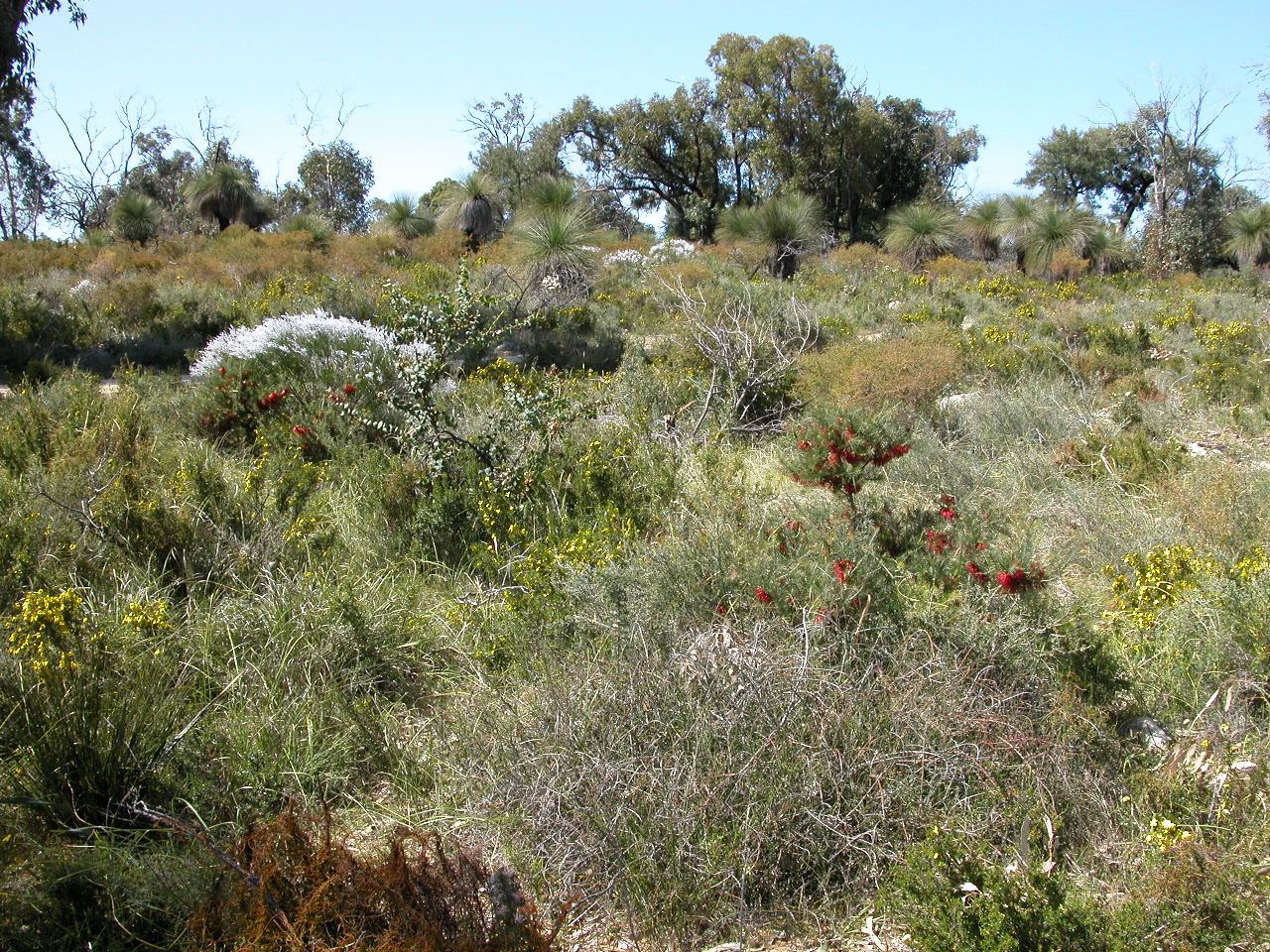 Yanchep National Park, wildflowers in September 2008. Calothamnus, Conospermum, Hibbertia, with Xanthorrhoea in background.